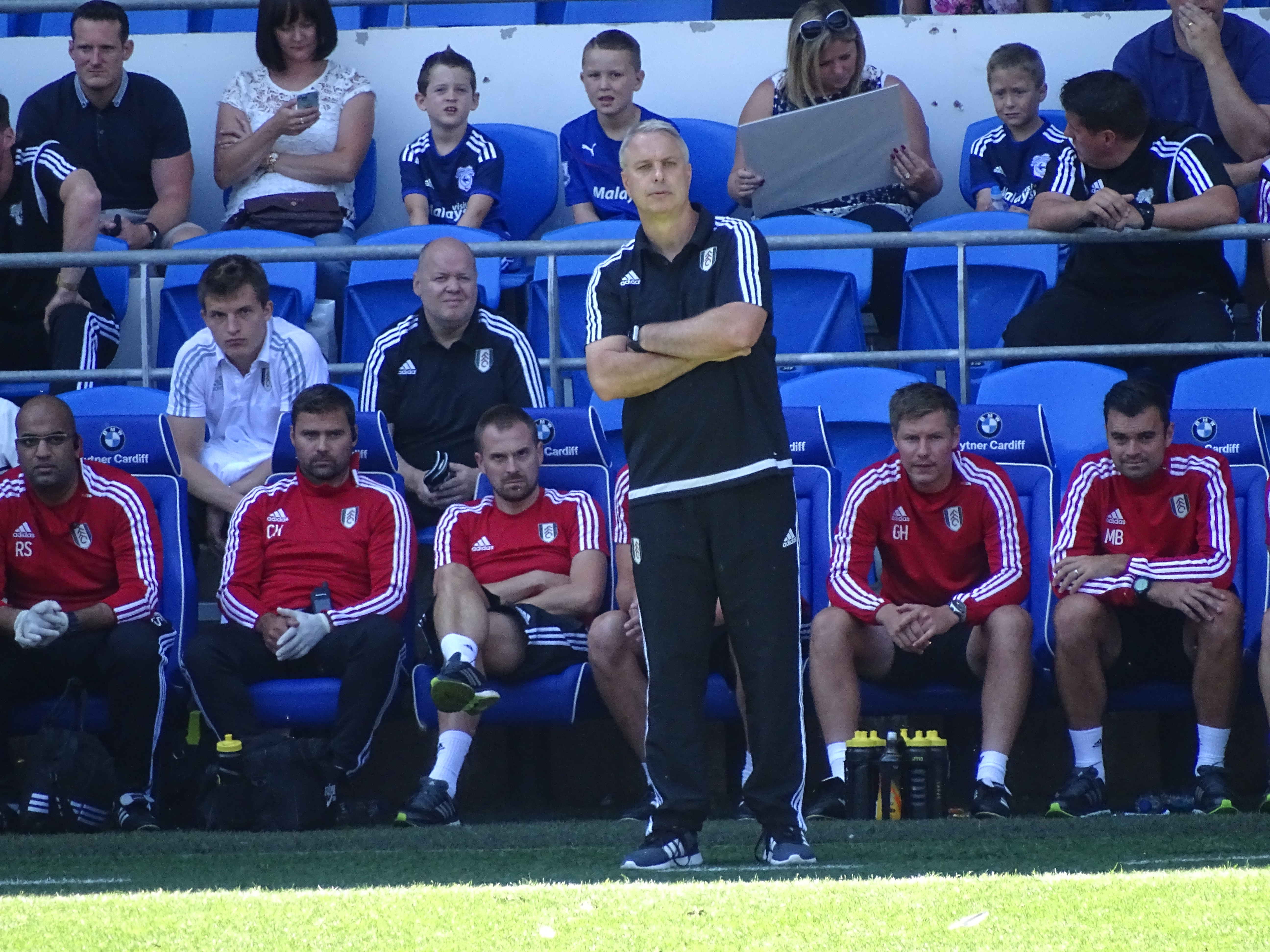 Kit Symons as a coach of Fulham FC in an away match against Cardiff City